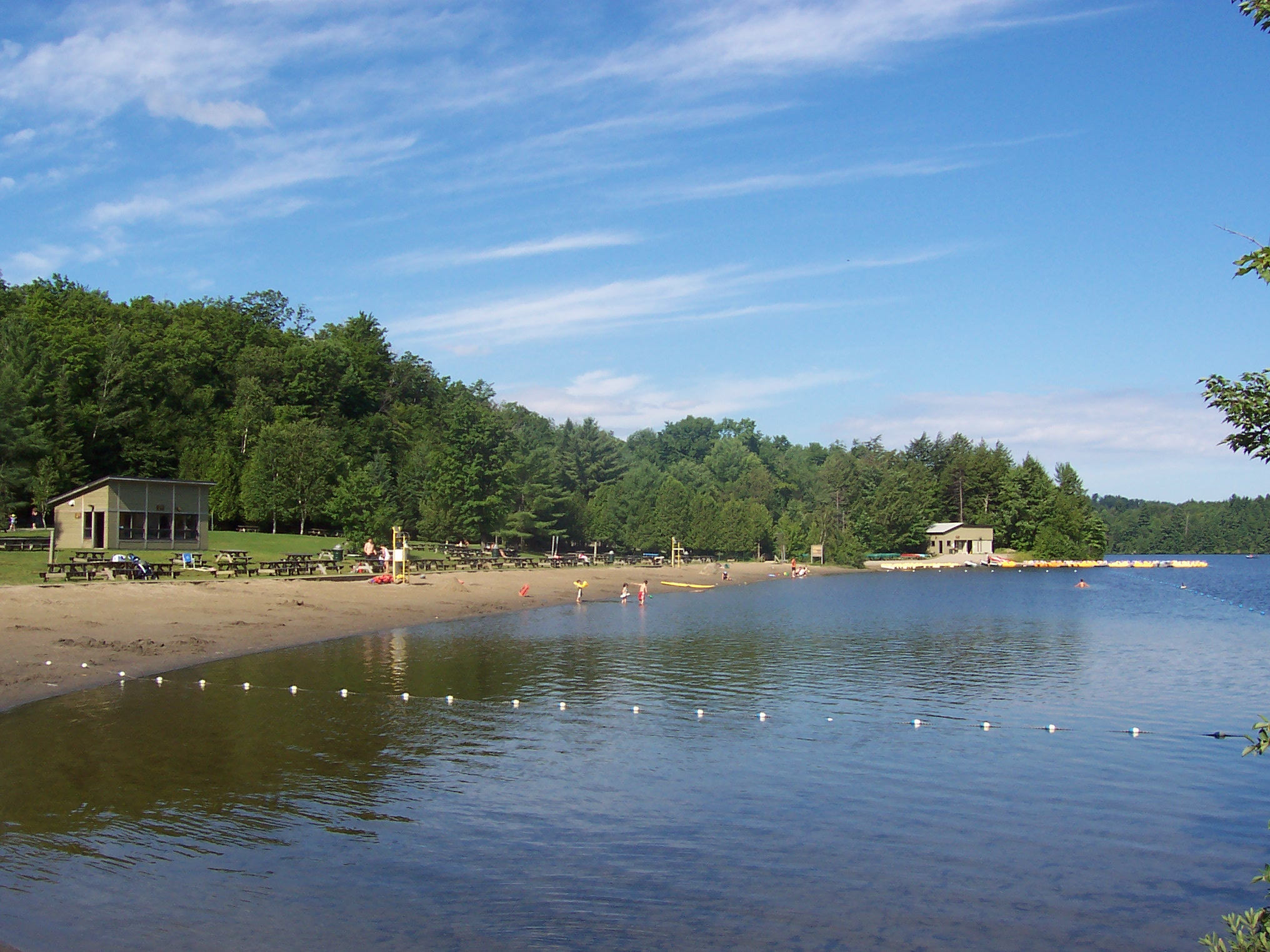 Mont Orford National Park (Quebec, Canada) - July 2007 - Lac Stukely beach